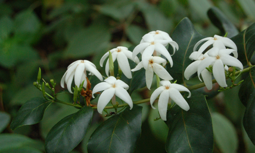 Photograph by Tim Waters (copyright holder), taken at Royal Botanic Gardens, Kew